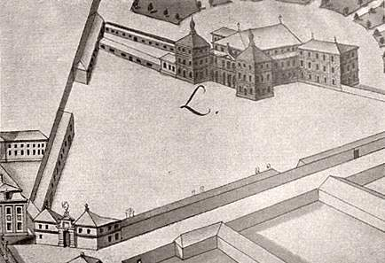 Sandomierski Palace in Warsaw before the reconstruction by Heinrich von Brühl.